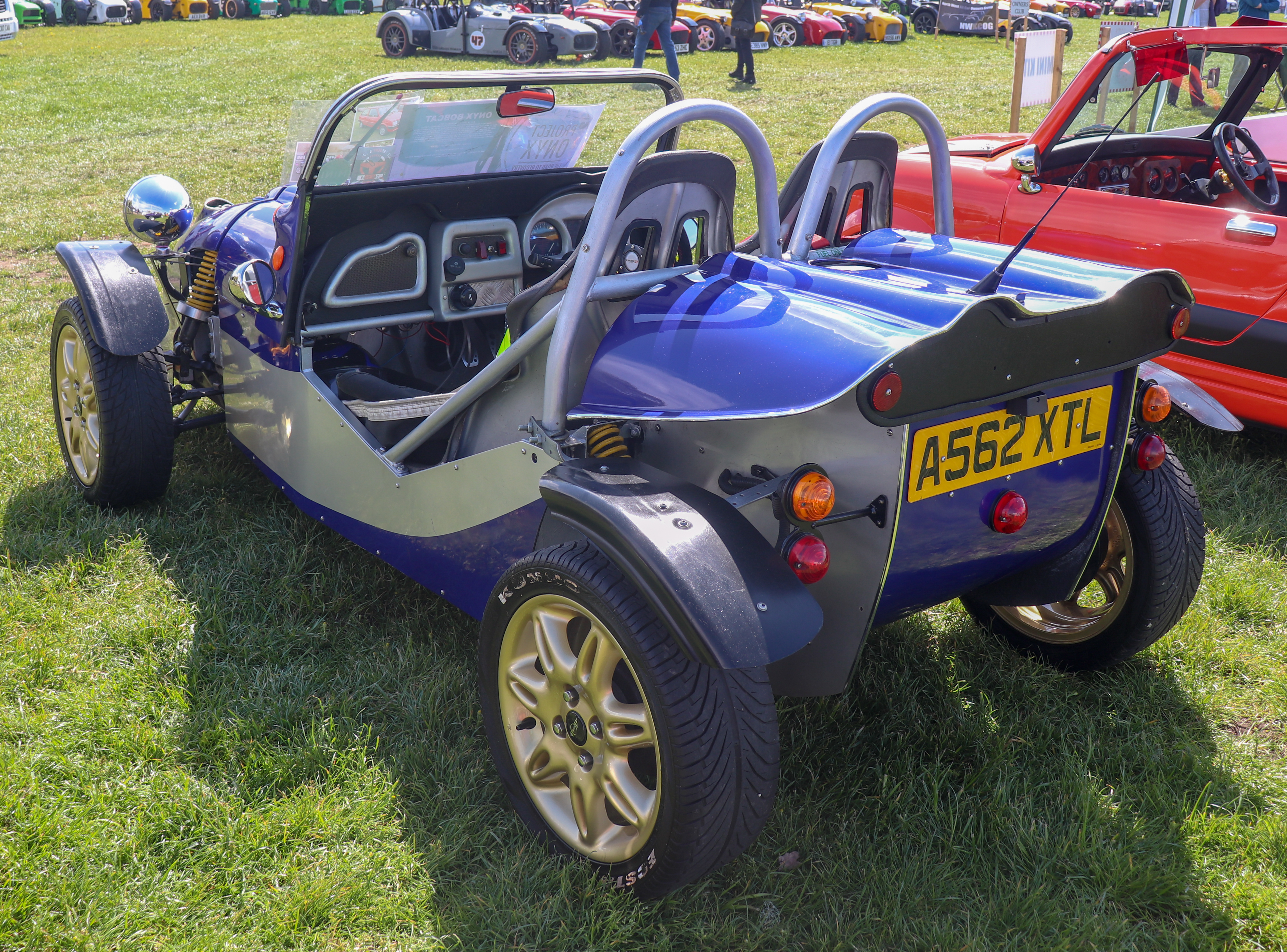 2001 Onyx Bobcat 1.3 Rear Taken at the Stoneleigh National Kit Car Motor Show 2019